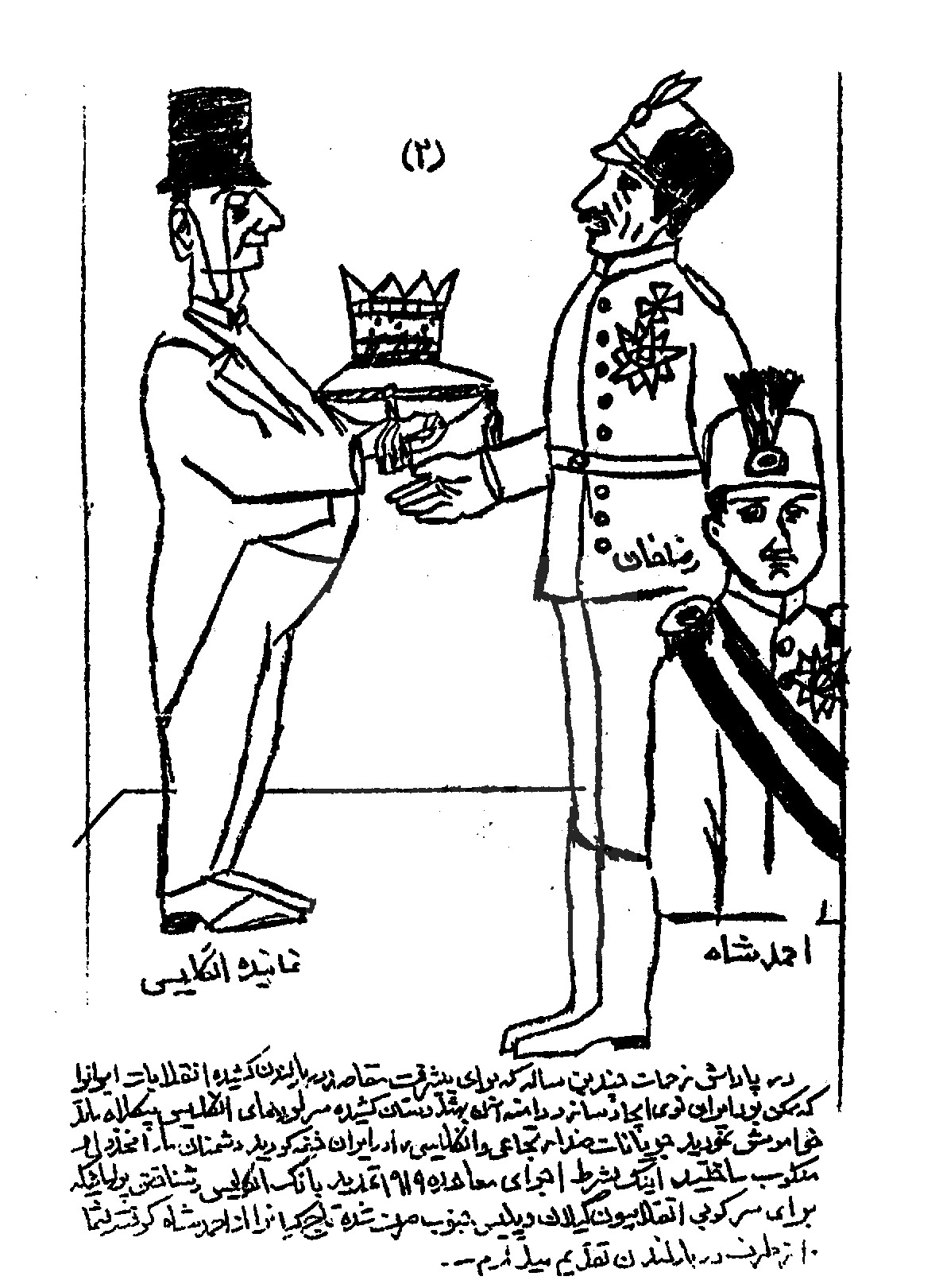 Cartoon Reza Khan. Ehsan Ullah Khan drew caricature of Reza Shah in 1928. Reza Khan, Ahmad Shah Qajar. "British imperialism" awarding Reza Shah a crown.